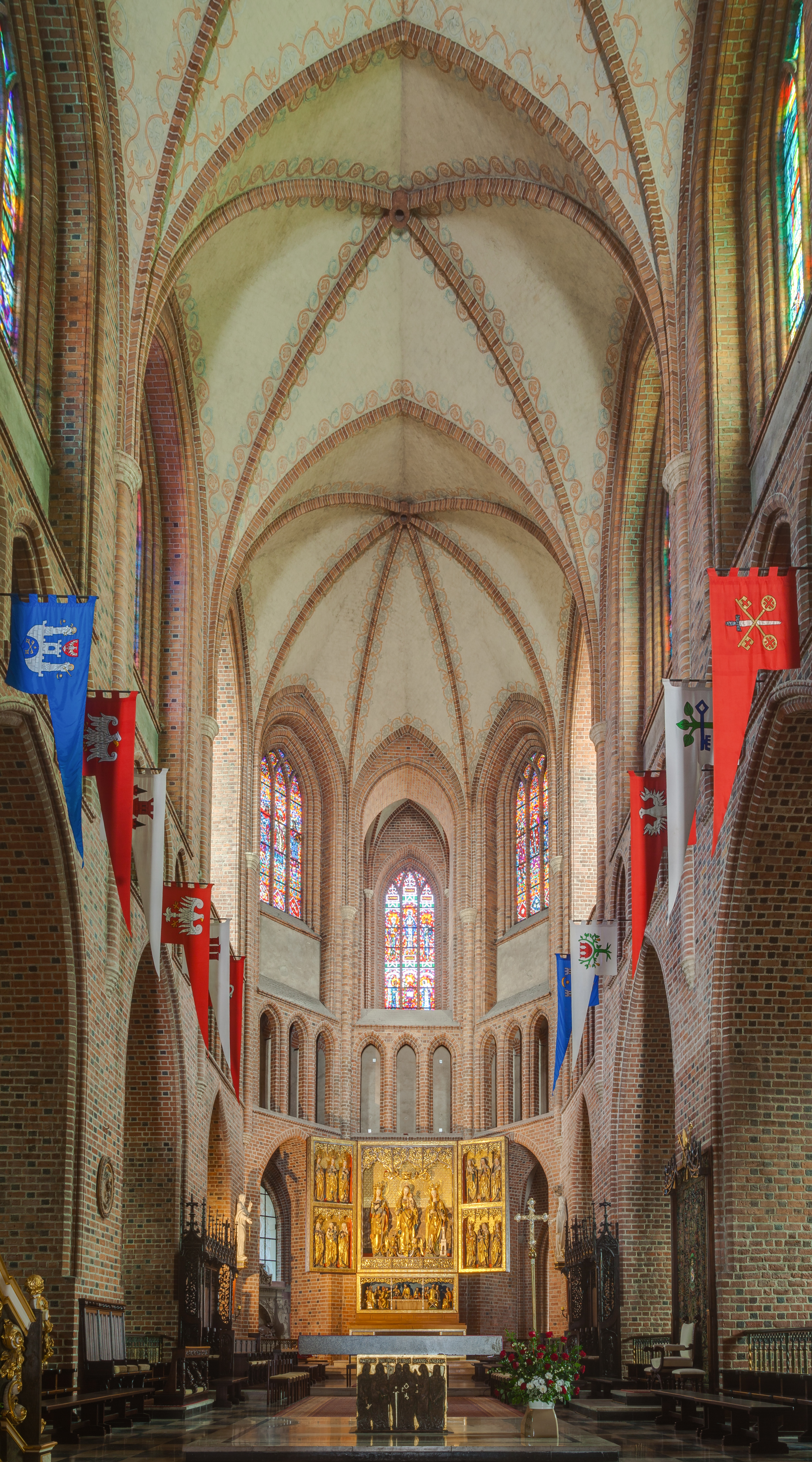 Poznan Cathedral, Poznan, Poland